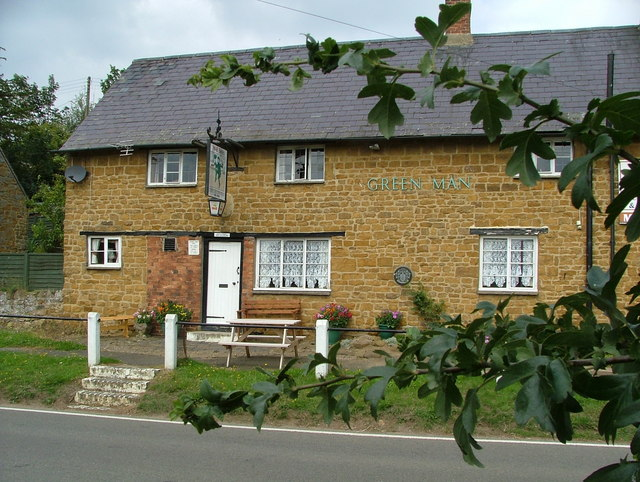 Green Man Inn, Mollington. 17th century pub